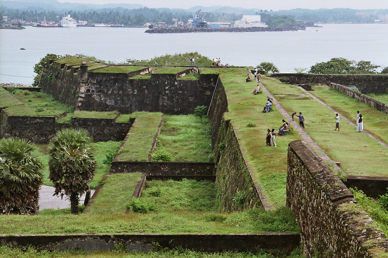 View across grass-clad walls to the sea. Galle, Sri Lanka.imm028_30A.jpg